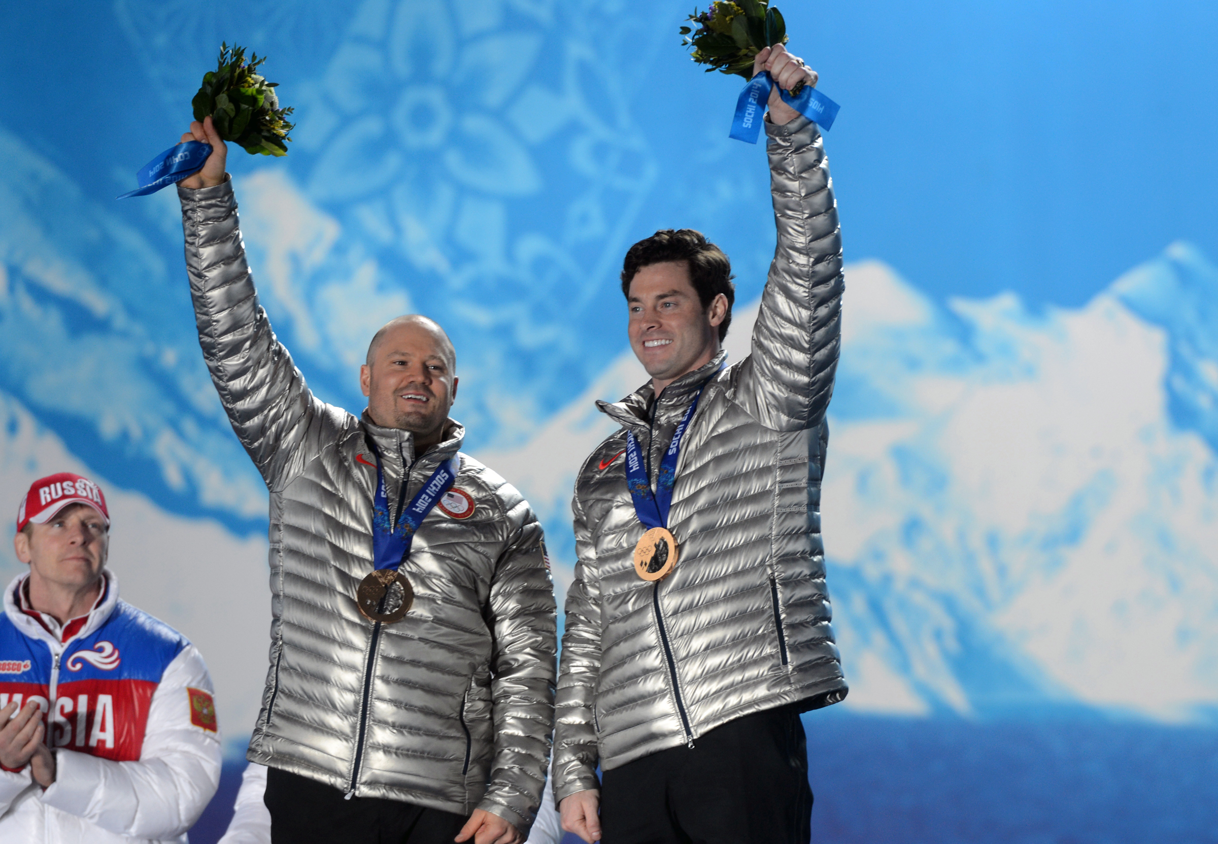 Former U.S. Army World Class Athlete Program bobsledder Steven Holcomb of Park City, Utah, and Steve Langton of Melrose, Mass., hoist the flowers and display their bronze medals during the Olympic two-man bobsled medal ceremony Feb. 18 at Olympic Park in Sochi, Russia. The Russian on the left is Alexander Zubkov, who drove Russia-1 to the gold medal with Alexey Voevoda aboard. (U.S. Army photo by Tim Hipps)